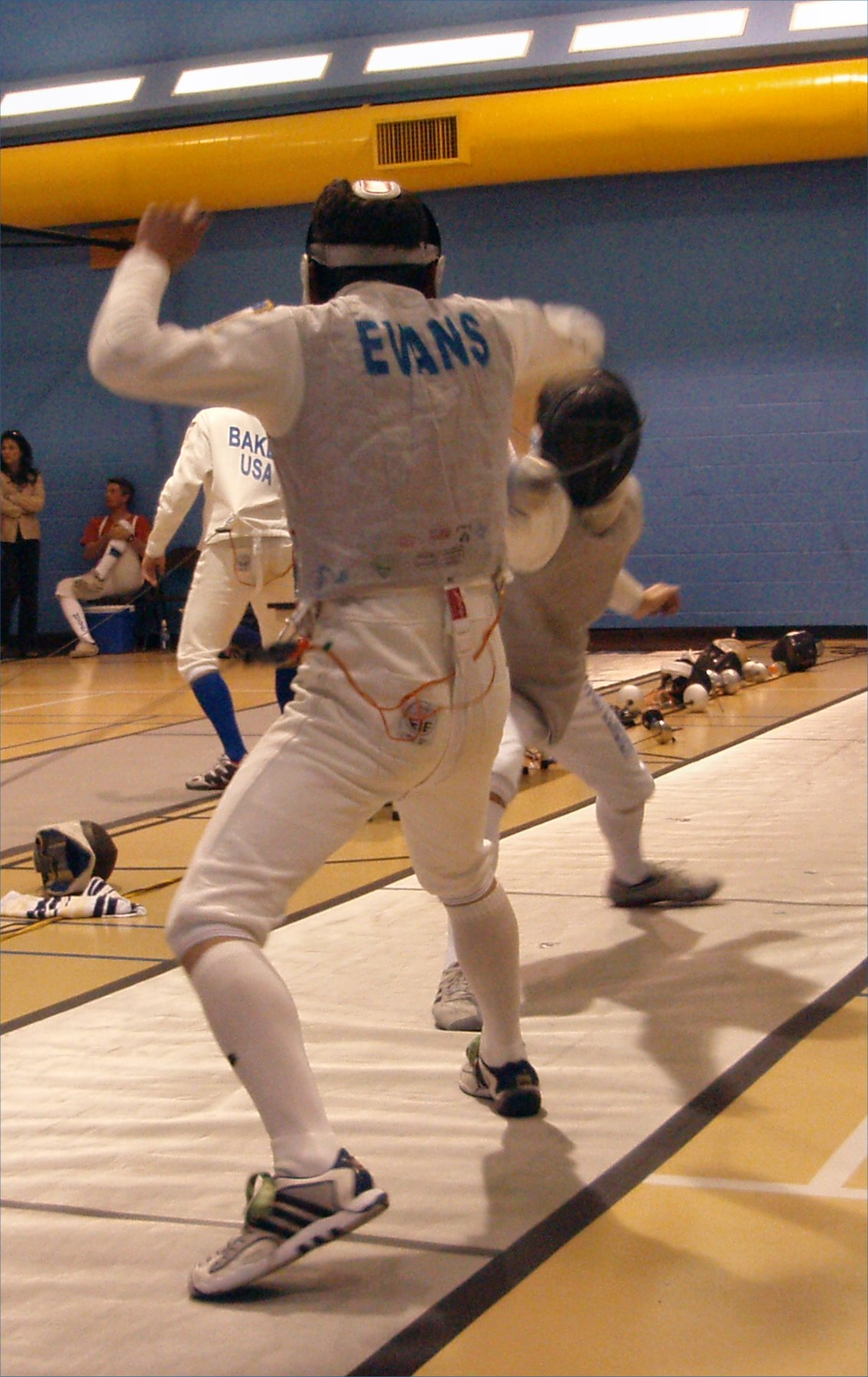 Attack in Foil fencing from the Amarillo Open tournament, Feb. 2007